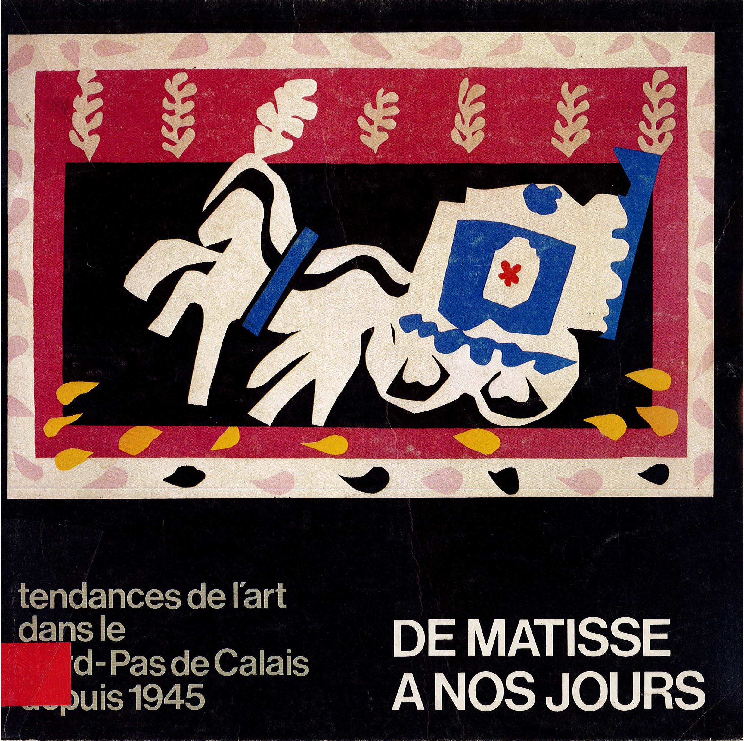 The book of the exhibition "De Matisse à nos jours : tendances de l'art dans la région Nord-Pas-de-Calais depuis 1945".